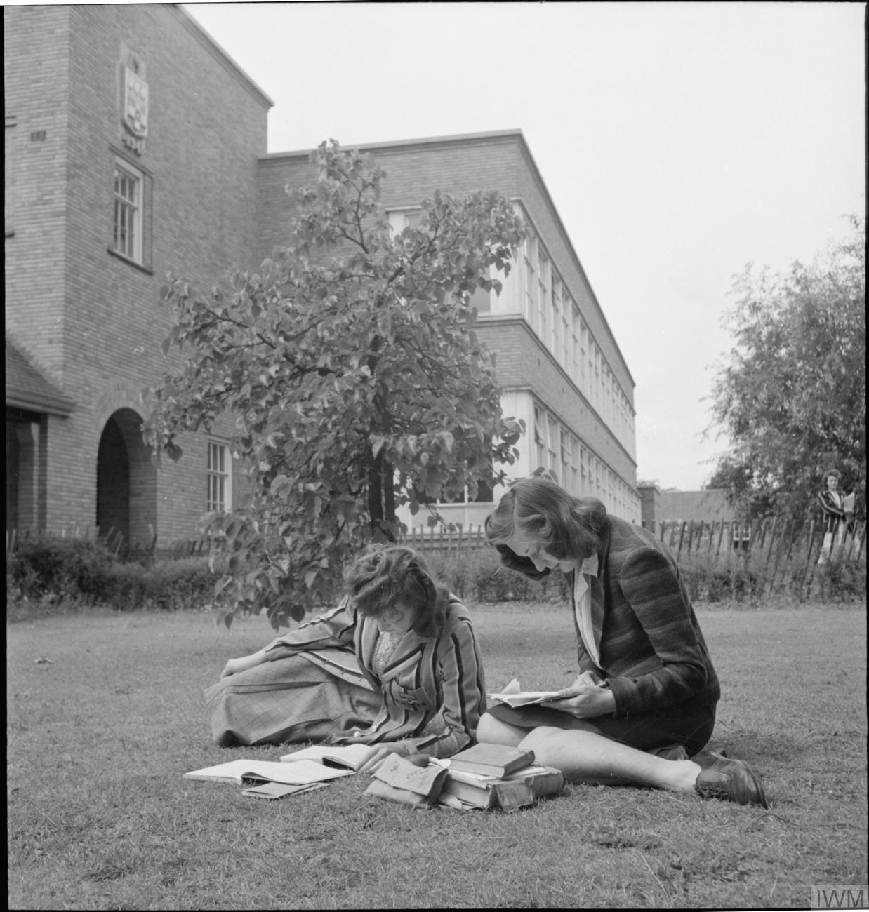 A Picture of a Southern Town- Life in Wartime Reading, Berkshire, England, UK, 1945 Two female students read textbooks on the lawn outside the new Psychology and Zoology block at Reading University.